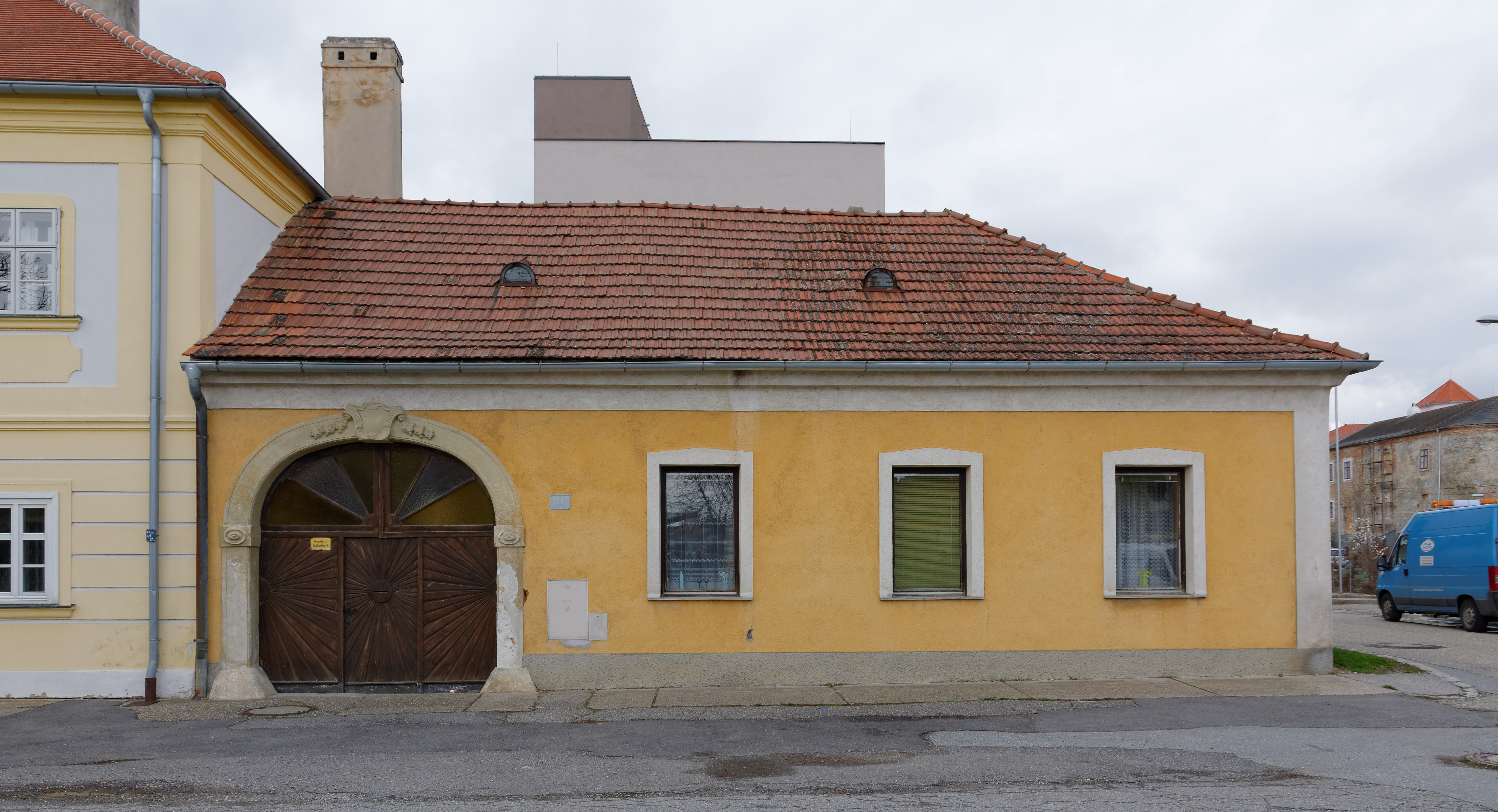 Residential building in Kittsee, Burgenland, Austria